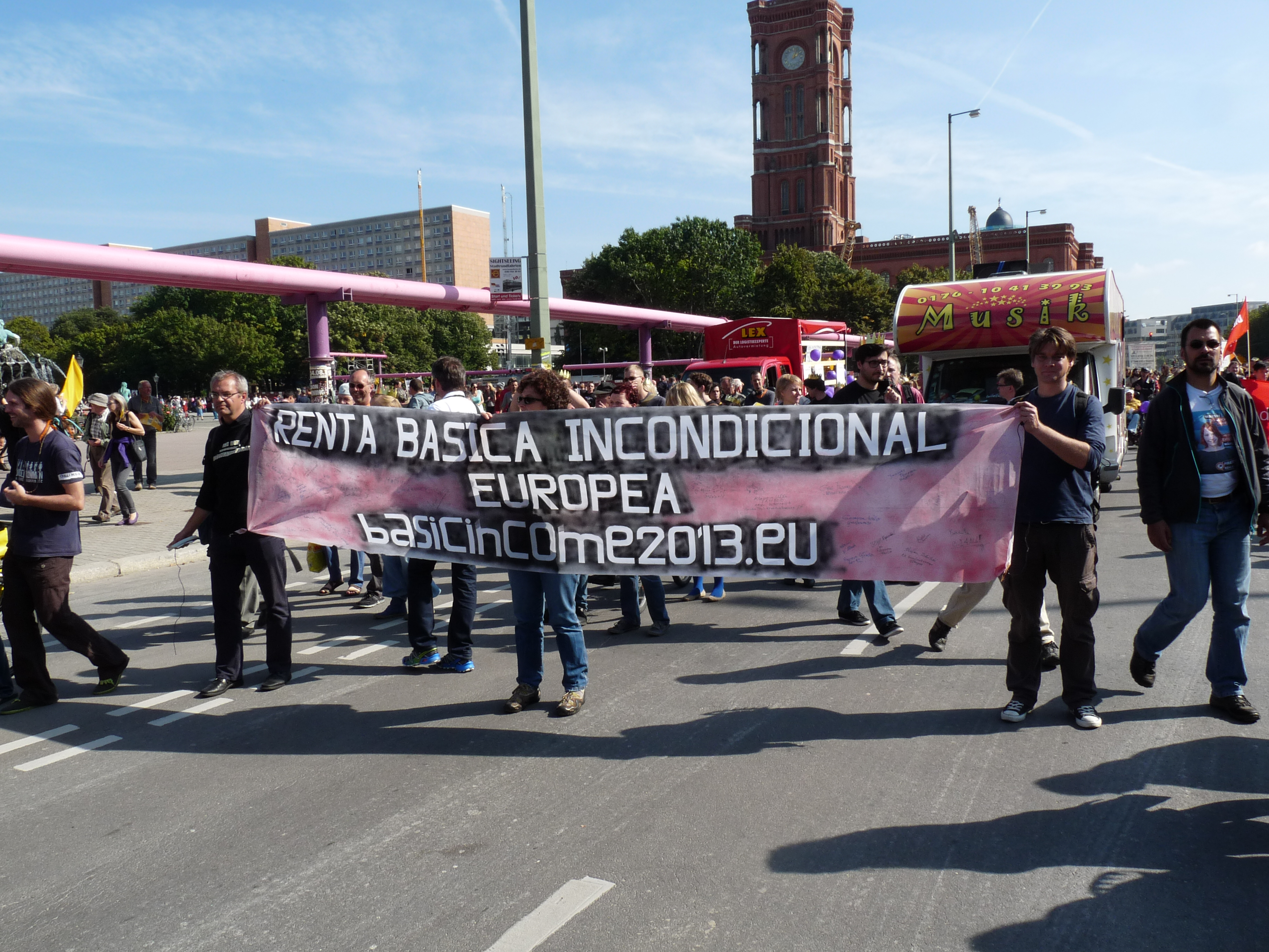 More than 2.000 people rallying for a Basic Income on the BGE-Demonstration on September 14, 2013 in Berlin